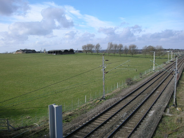 Barby Nortoft Nortoft Farm, looking from the Rugby-Northampton railway bridge.